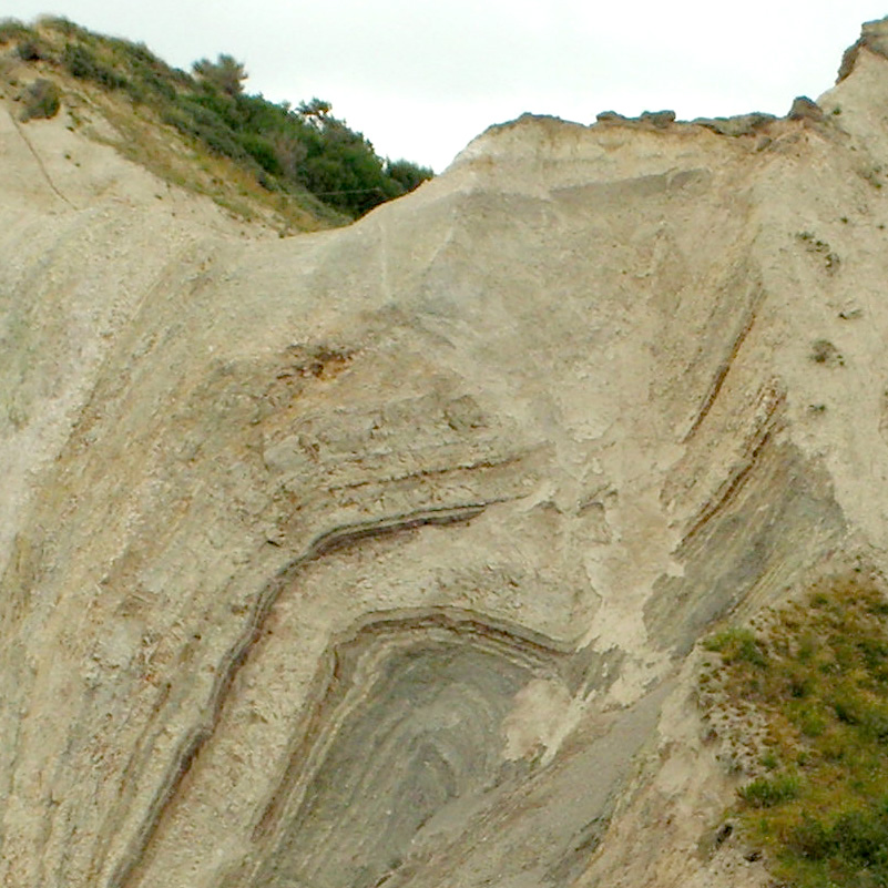 The twisting of geological layers is clearly visible on this picture of a cliff on Fur, Denmark.